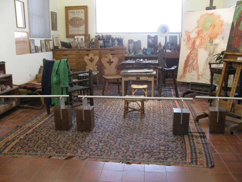 Artist\'s studio - Reuven Rubin